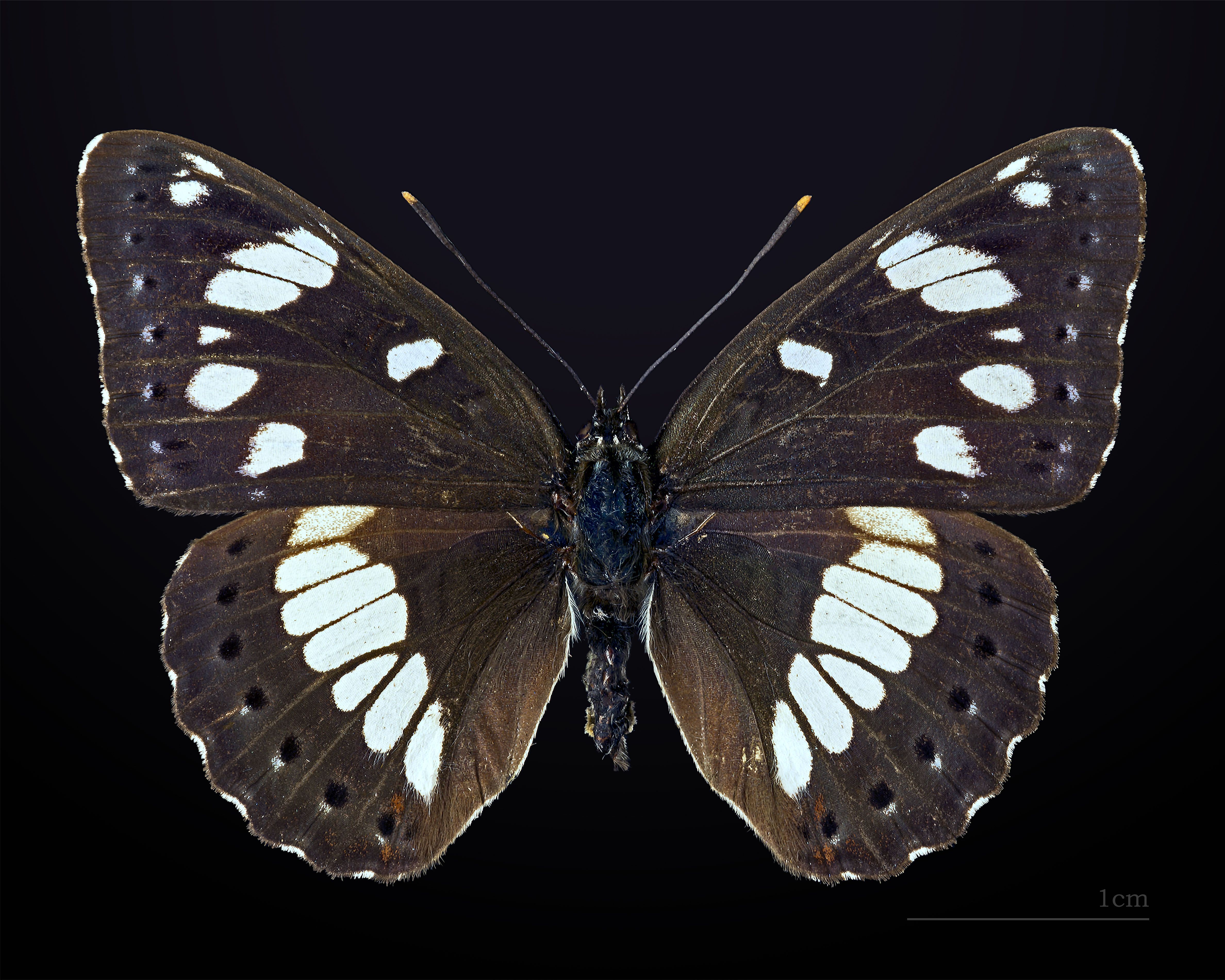 Southern White Admiral - Dorsal side